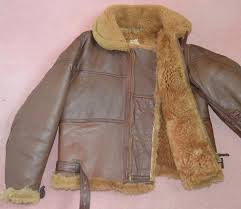 Flight Jacket of a pilot of a B-17 bomber in WWII